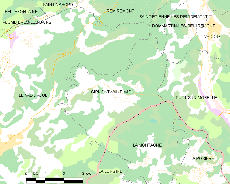 Map of French municipality Girmont-Val-d'Ajol